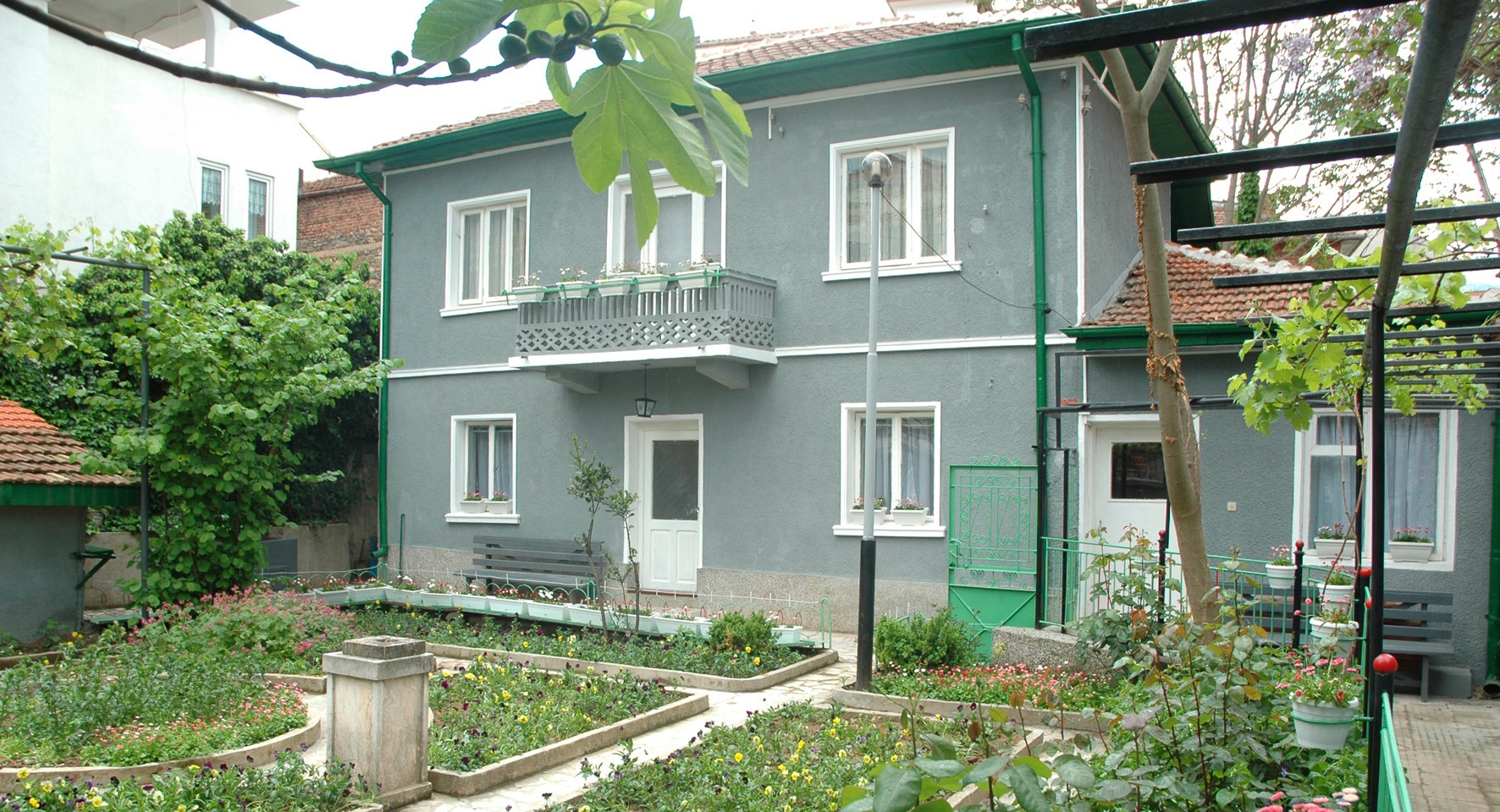 Home of grandmother Vanga in Petrich city